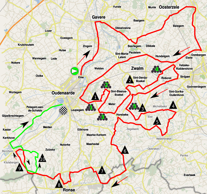 Map of the Ronde van Vlaanderen vrouwen 2015.